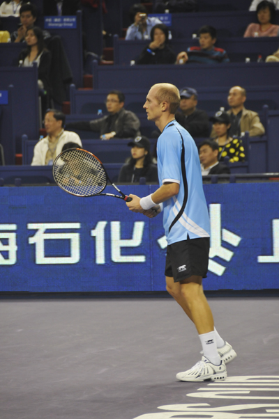 Nikolay Davydenko during the 2008 Tennis Masters Cup final against Novak Djokovic